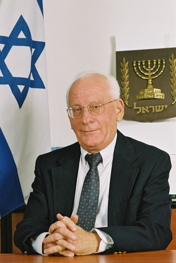 YEHOSHUA GROSS